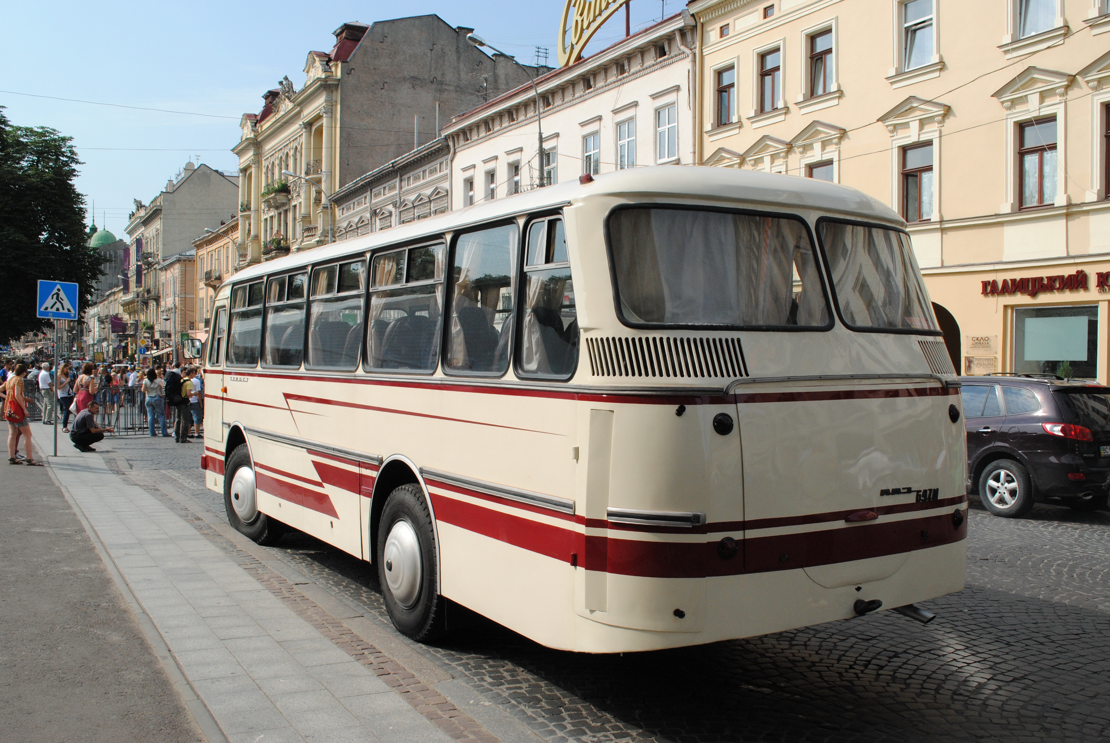 LAZ-697M bus on a Lviv Grand Prix Exgibition